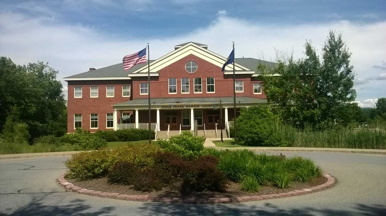 The Addison County Court House houses the Addison County Superior Court as part of the State of Vermont Judiciary.